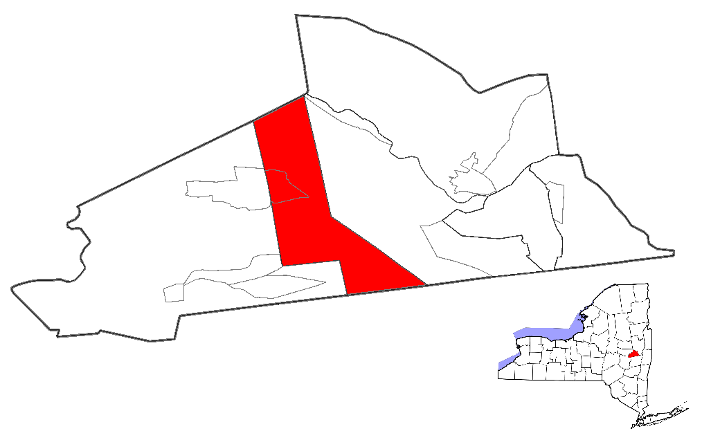 Map of Schenectady County highlighting Princetown